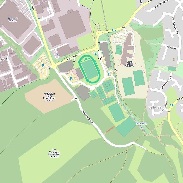 John Charles Centre for Sport in Leeds, West Yorkshire. Taken from Open Street Map on the 1st of December 2012.